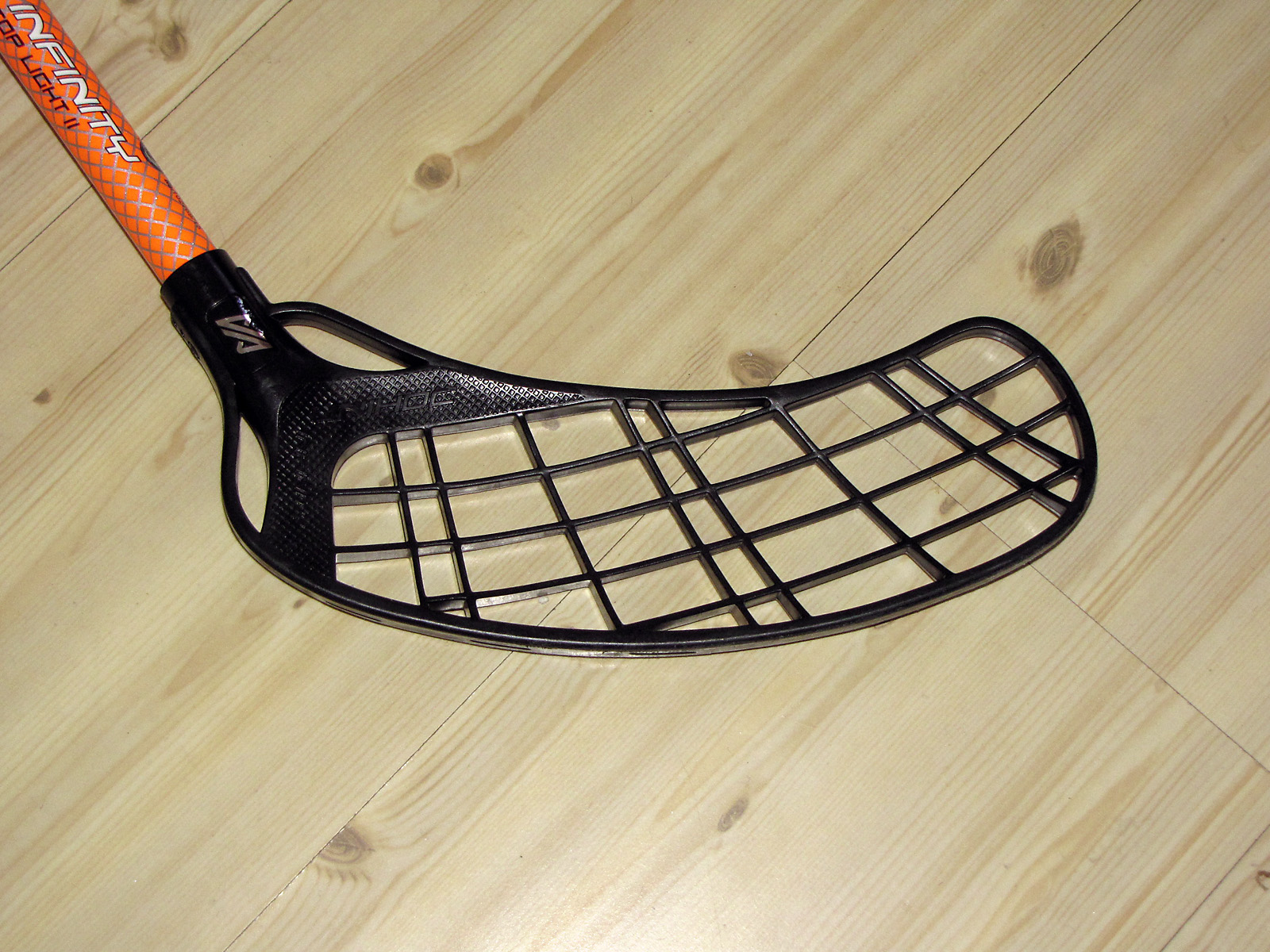 Closeup of a floorball stick blade.